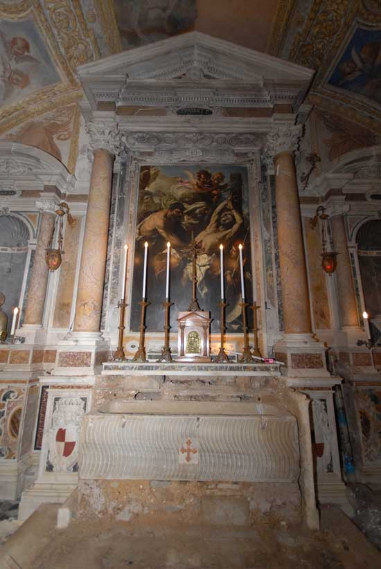 St. Erasmus altarpiece at the crypt of the catedral of Gaeta, with the saint's casket. Frescoes by Giacinto Brandi, 1663.